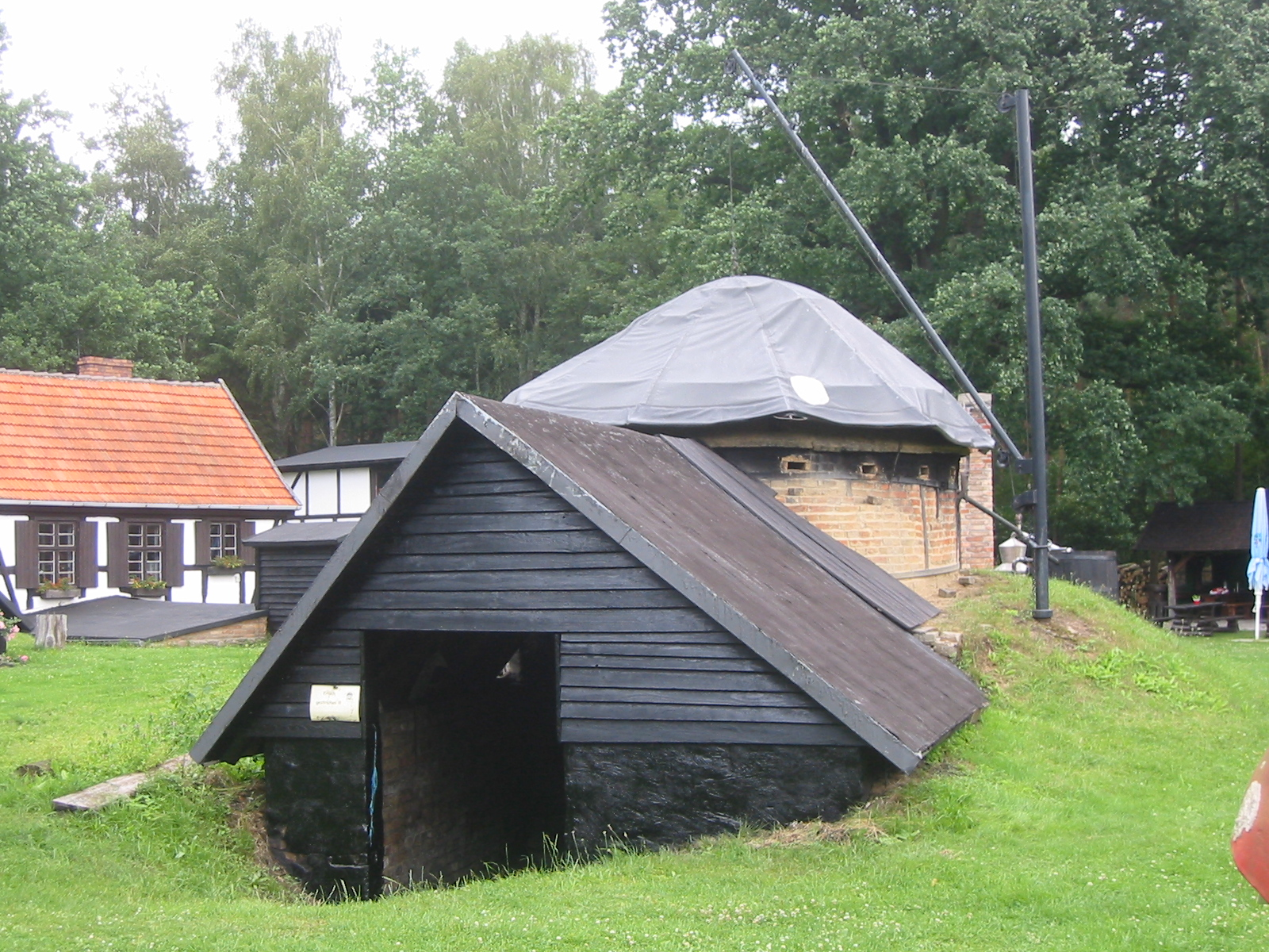 Small tar oven at Wiethagen Forest and Charcoal Burning Lodge in Rostock-Wiethagen